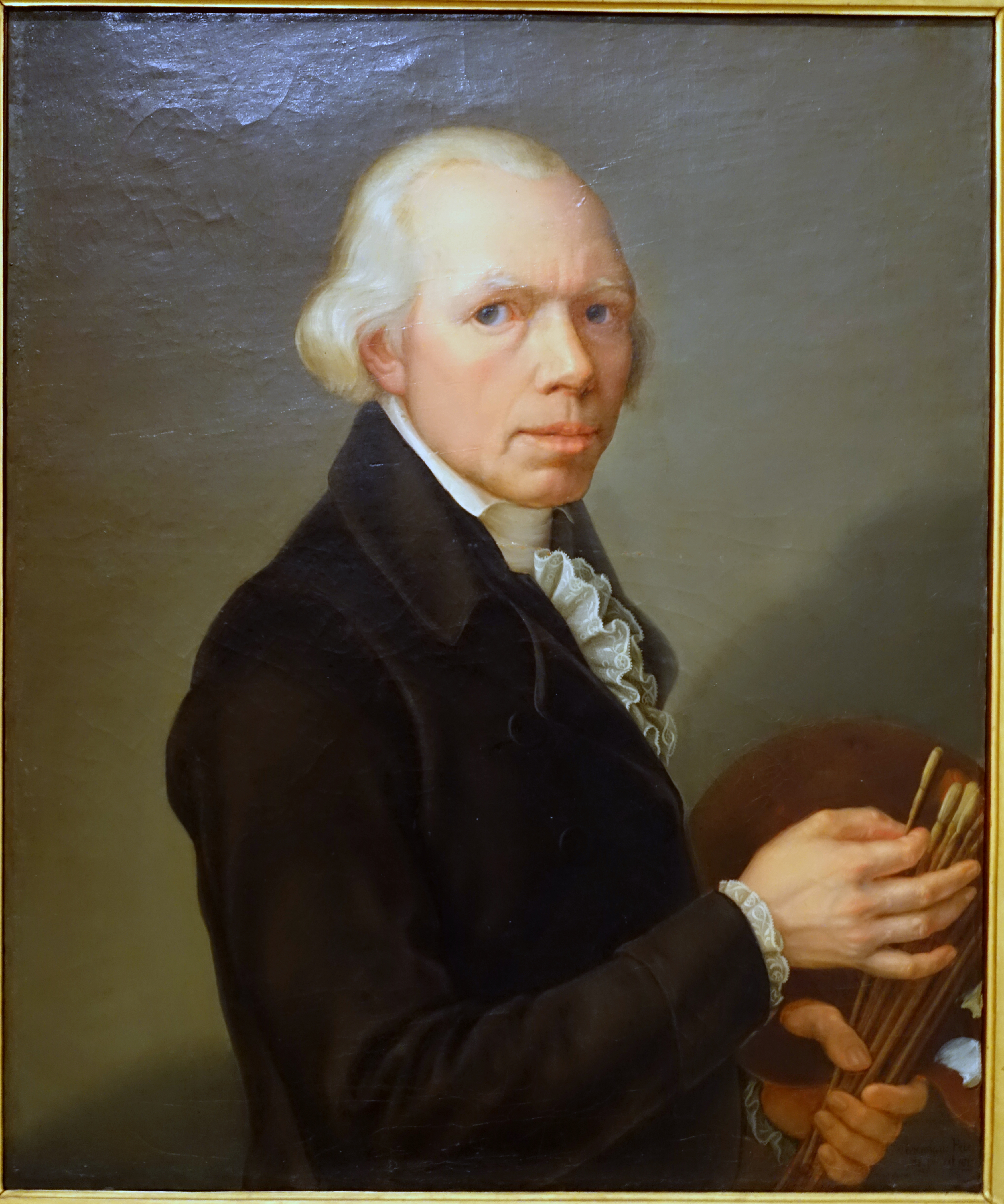 Exhibit in the Pinacoteca Vaticana - Vatican Museums.